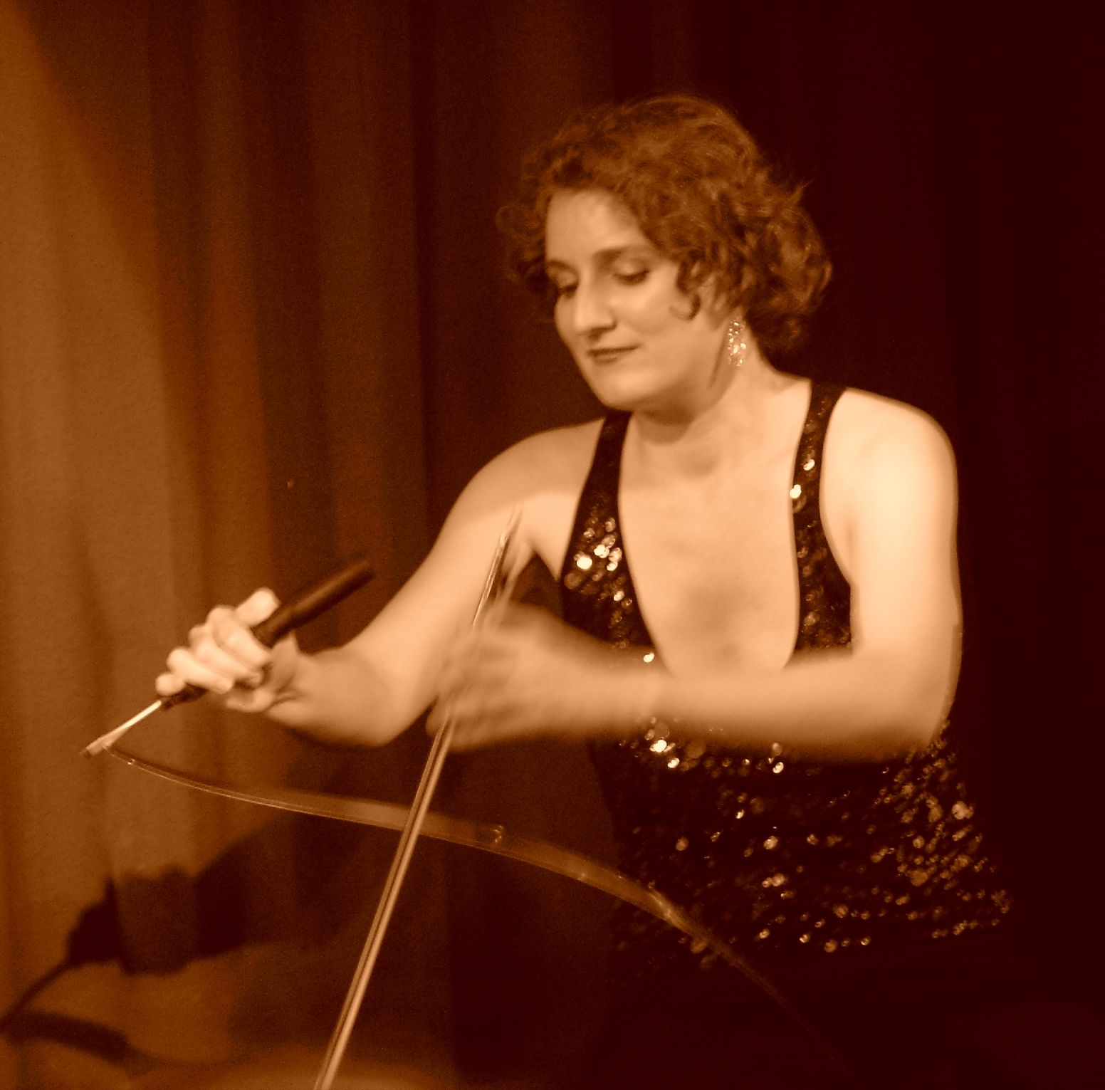 musical saw player